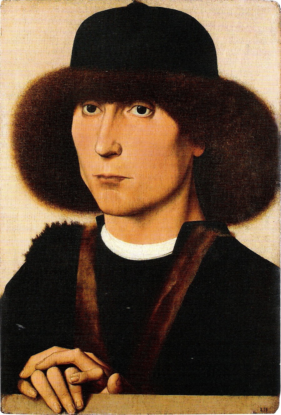 Male portrait - Portrait of Alberto (?) Contarini. Chateauroux, Museum